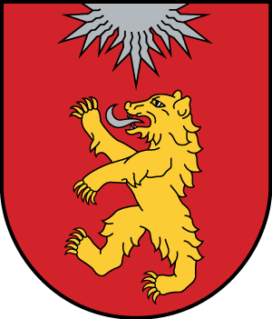 Coat of arms of Valkas novads, Latvia